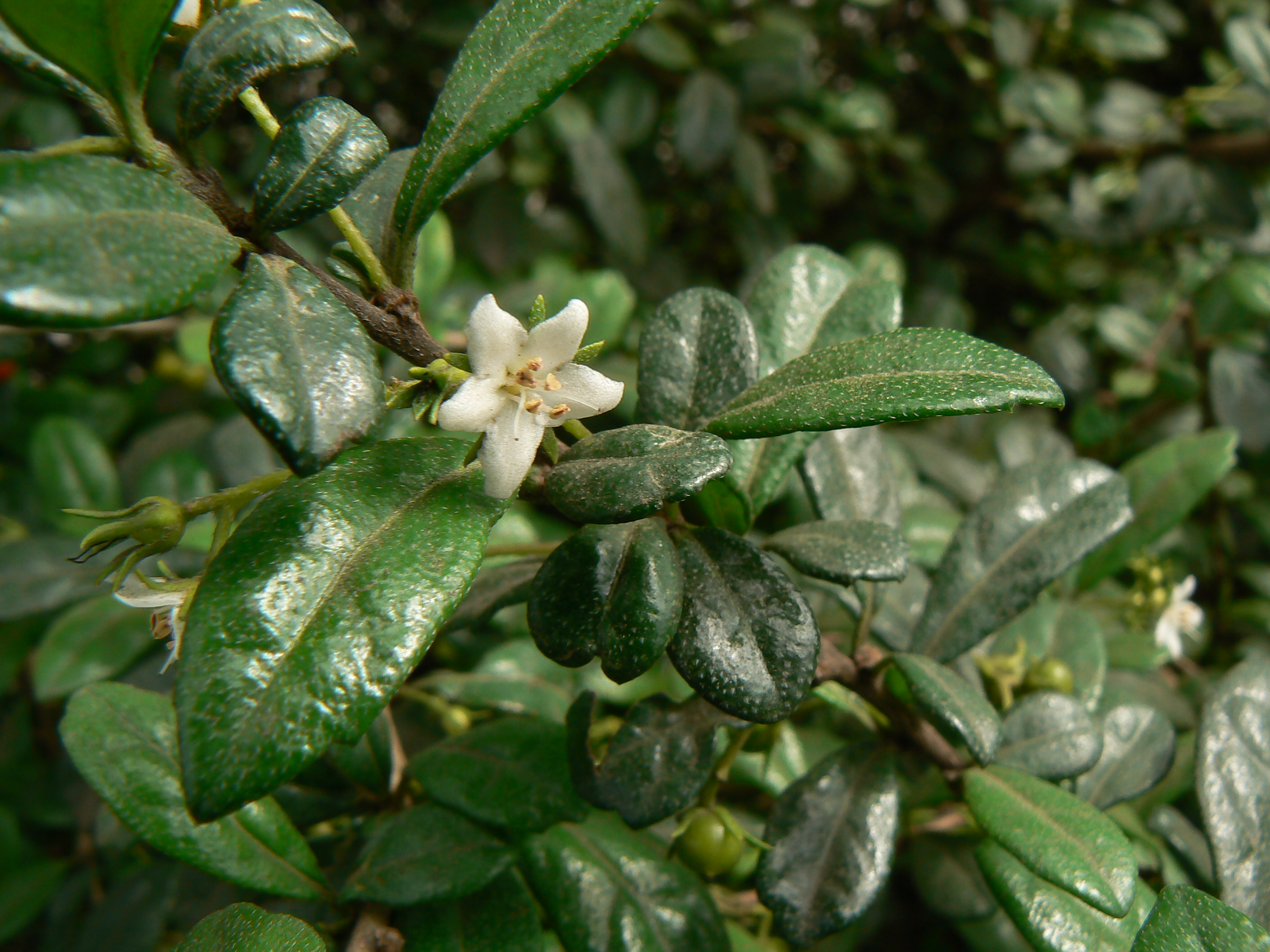 Boraginaceae (forget-me-not family) » Carmona retusa kar-MON-uh -- derivation not known re-TOO-suh -- rounded and notched tip commonly known as: Philippine tea, Fukien tea • Hindi: pala • Kannada: bute • Tamil: kattu-vellilai, kodikarai, குருவிஞ்சி kuruvinci • Telugu: బావనబూరె bavanaburei, బూరె bure Origin: southeast Asia to southern China ... inflorescences mostly solitary and axillary ... shiny leaves in clusters of 3-5, blade obovate or oblanceolate ... coarsely 3-5 toothed towards apex, apex acute to obtuse or rounded ... upper surface becoming scabrid. References: Philippine Herbal Medicine Site • Wikipedia • PIER species info